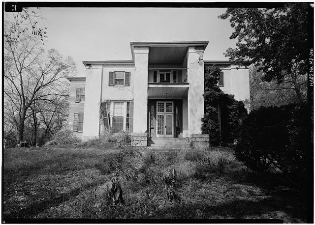 Historic American Buildings Survey Lanney Miyamoto, Photographer October 1964 SOUTHEAST ELEVATION - Mount Ida, 3691 Sarah's Lane, Ellicott City, Howard County, MD